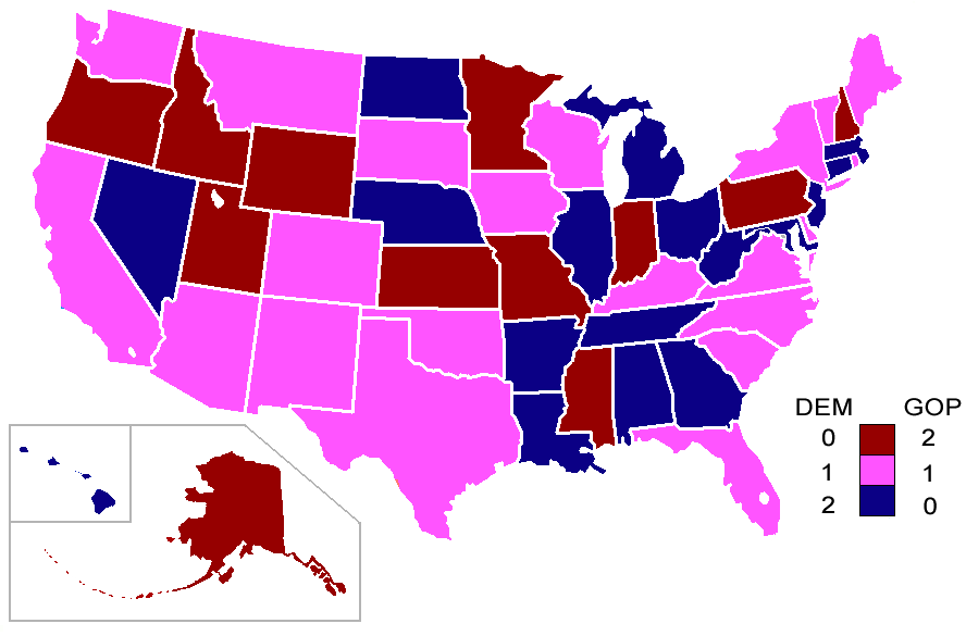 Chart showing composition of the United States Senate during the 101st Congress